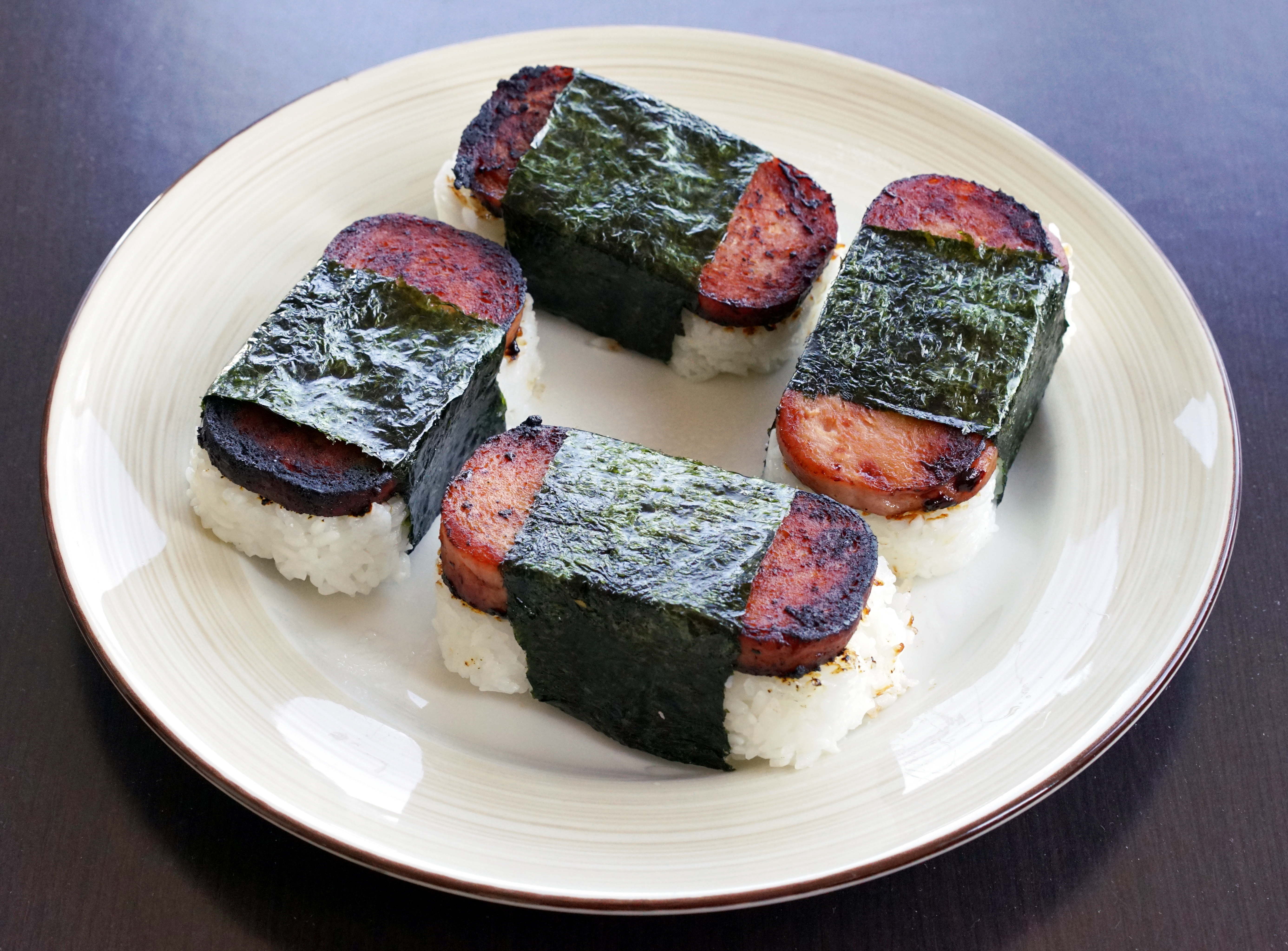 I made some spam musubi today. They were delicious.